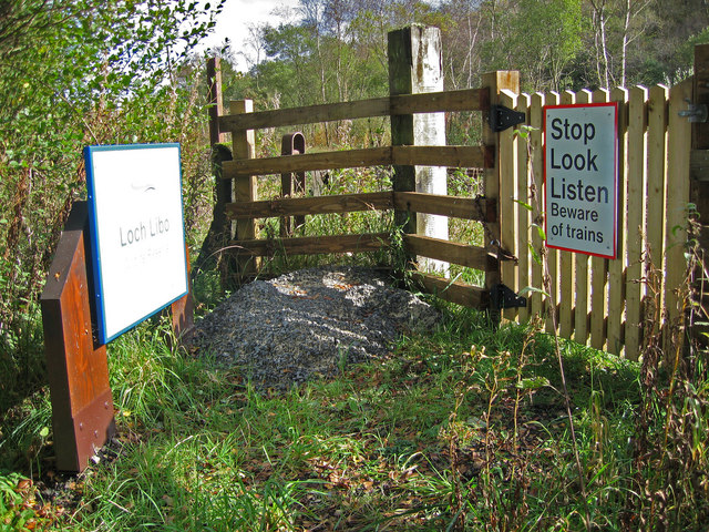 Pedestrian Railway crossing Leading across the Kilmarnock/Barrhead line to Loch Libo.